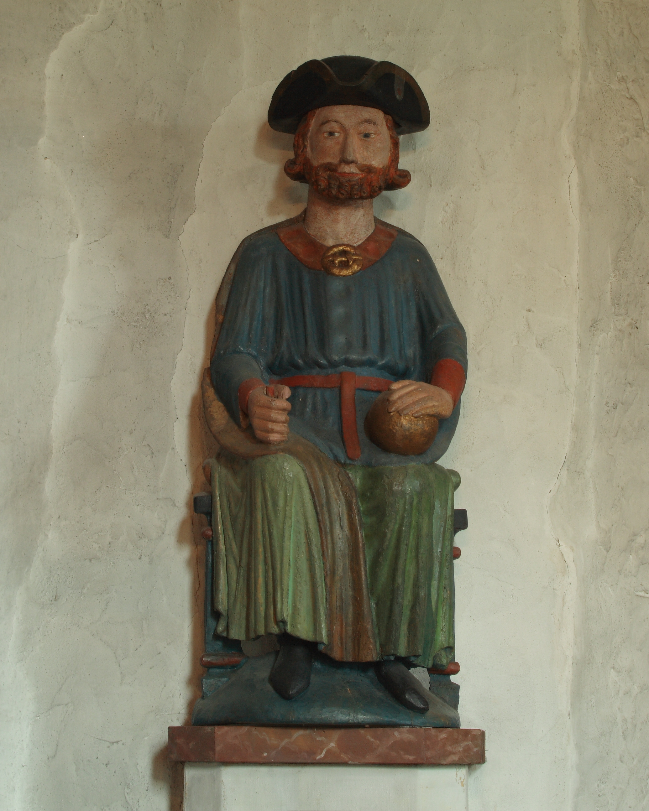 Statue of Olav II of Norway wearing a Carolean uniform hat in Åre Old Church.